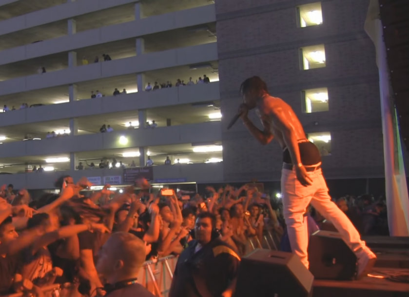 Travis Scott performing in 2015 August